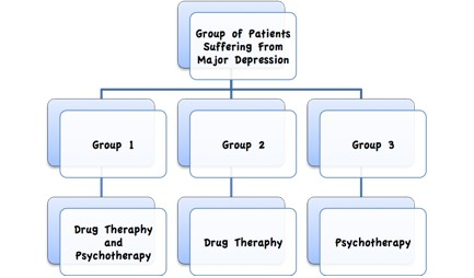 A graphic explanation of between-group design